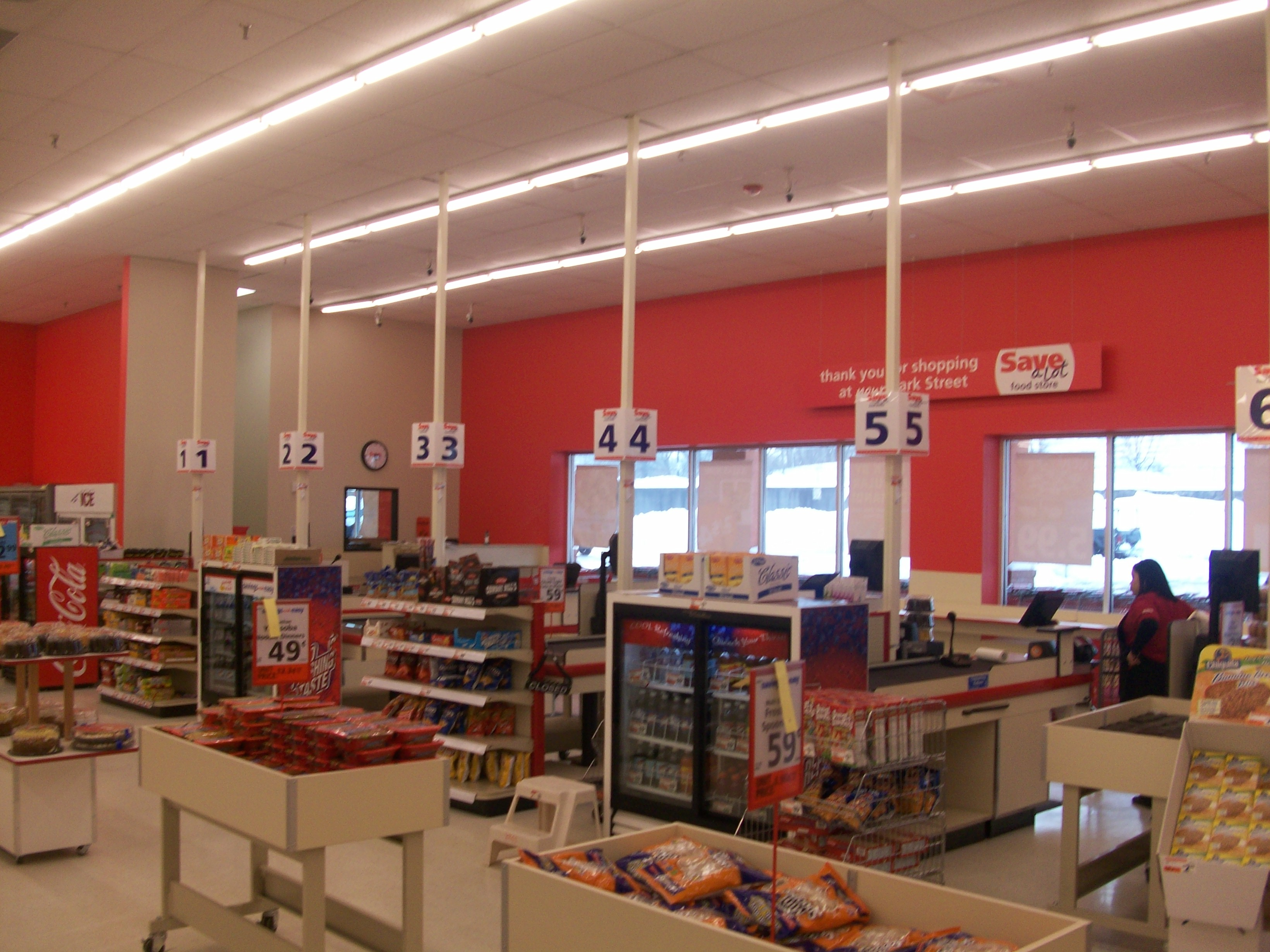 Front end of Save-A-Lot in Hartford, CT